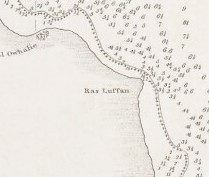 "‘Trigonometrical Survey of the Arabian or Southern Side of the Persian Gulf By Lieutenants J.M. Guy & G.B. Brucks H.C. Marine. 1824. Drawn by Lieutt. M. Houghton Draughtsman H.C.M. Engraved by John Bateman. Sheet 3rd’"